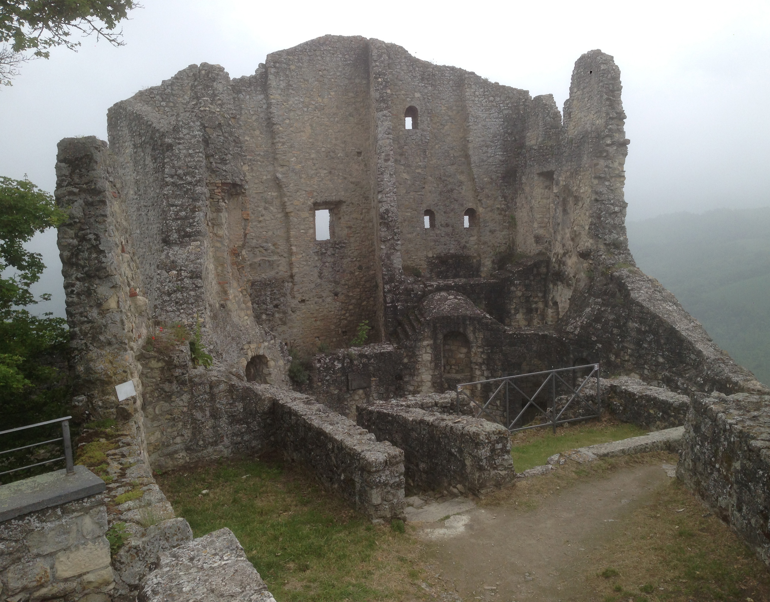 Canossa ruin